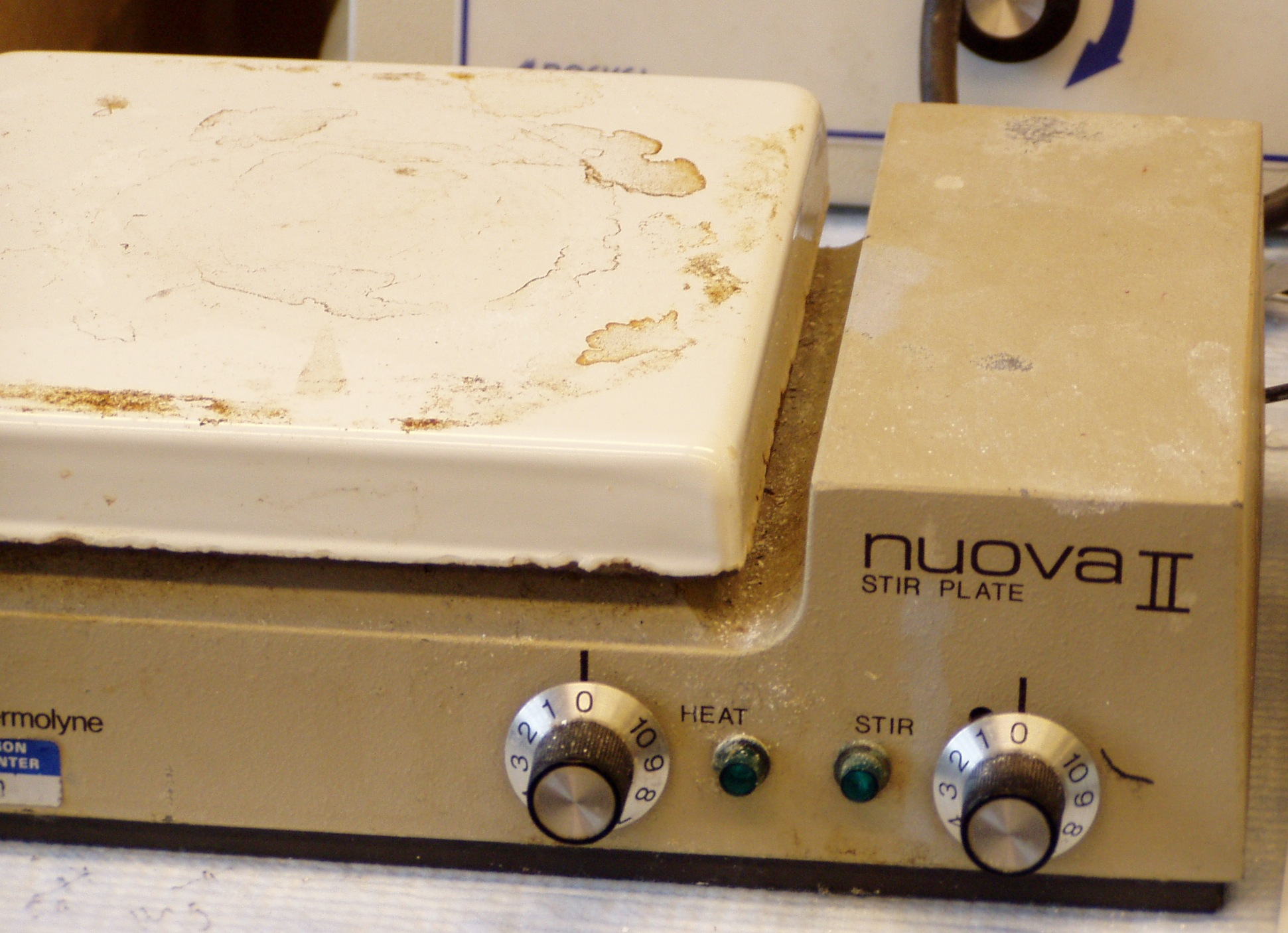 This hot plate with magnetic stirrer is used for preparing chemicals in a research laboratory.